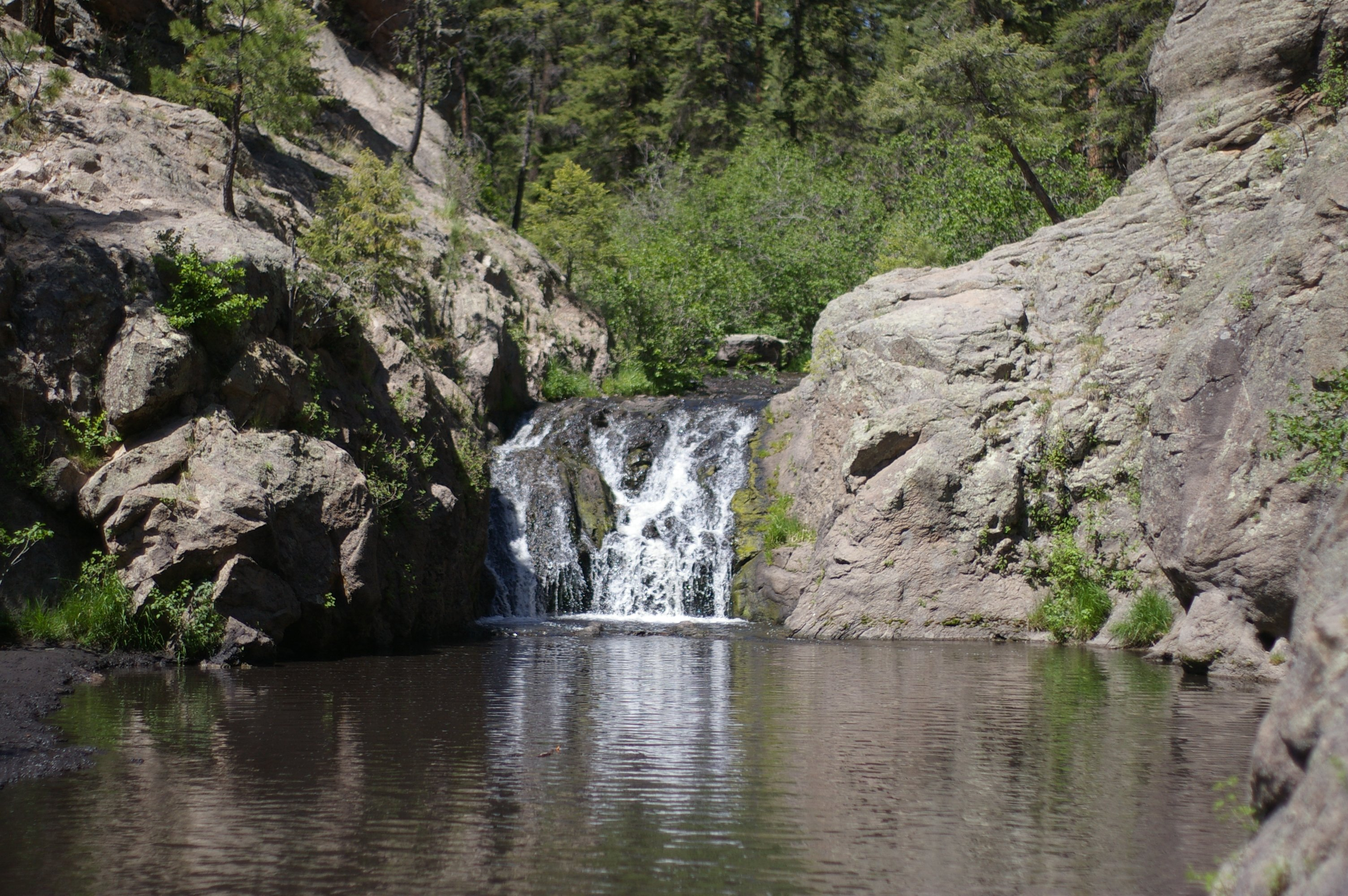 A view of a smaller falls above Jemez Falls